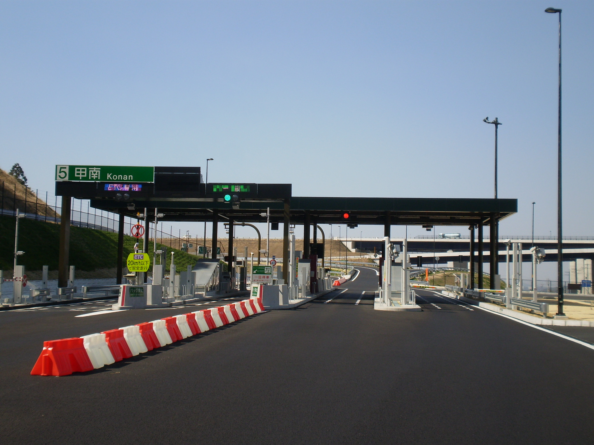 Konan interchange of Shin-Meishin Expressway. I took this image at Shinji Konan-cho Koka City Shiga Pref., Japan.